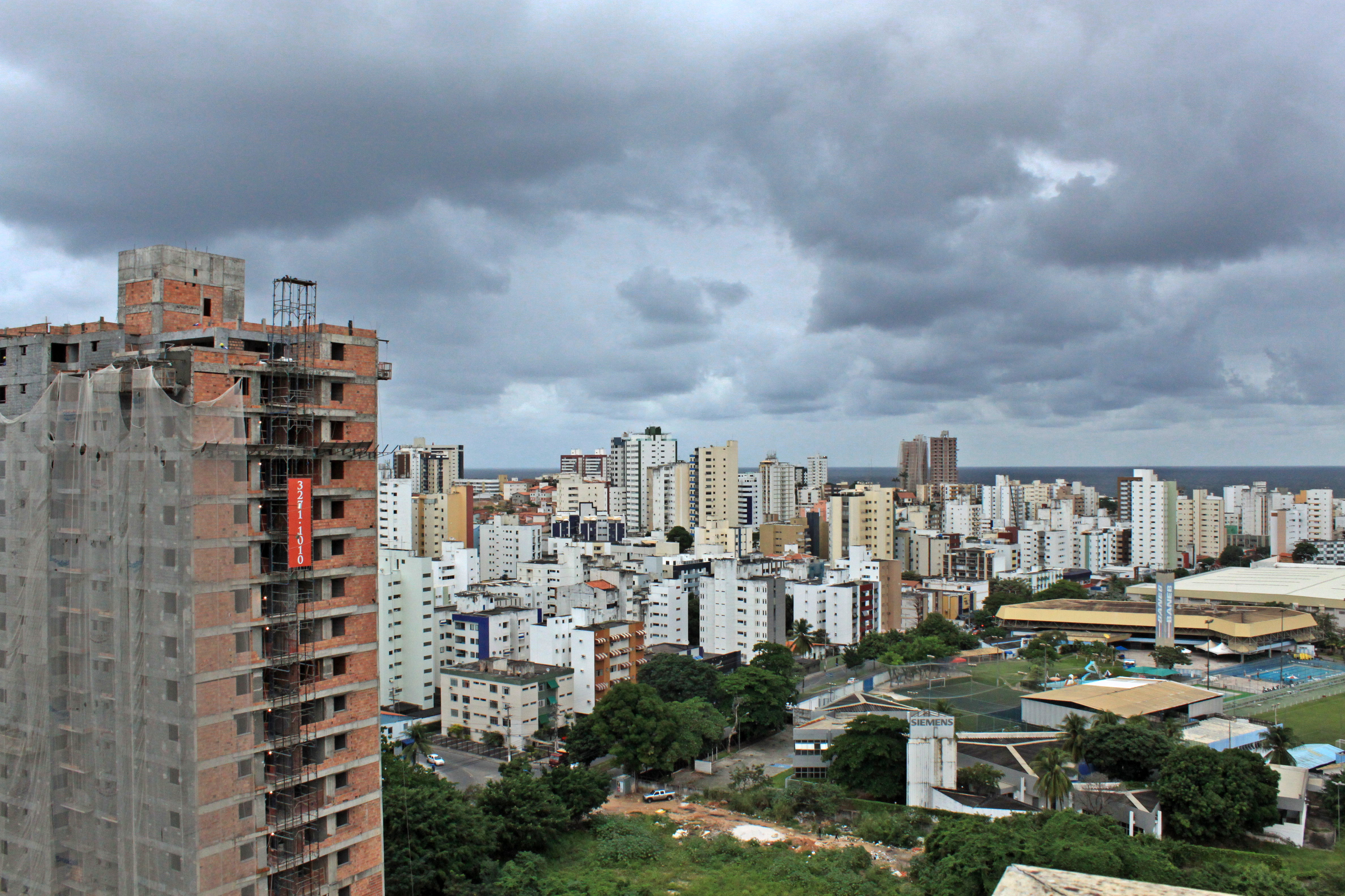 Costa Azul (Blue Coast), Salvador, Bahia, Brazil.